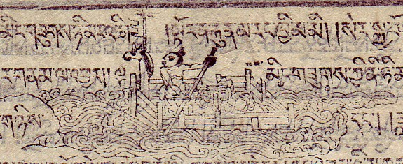 Tibetan fairy. From an old blockprint of the Vaidurya dkar-po (1685)